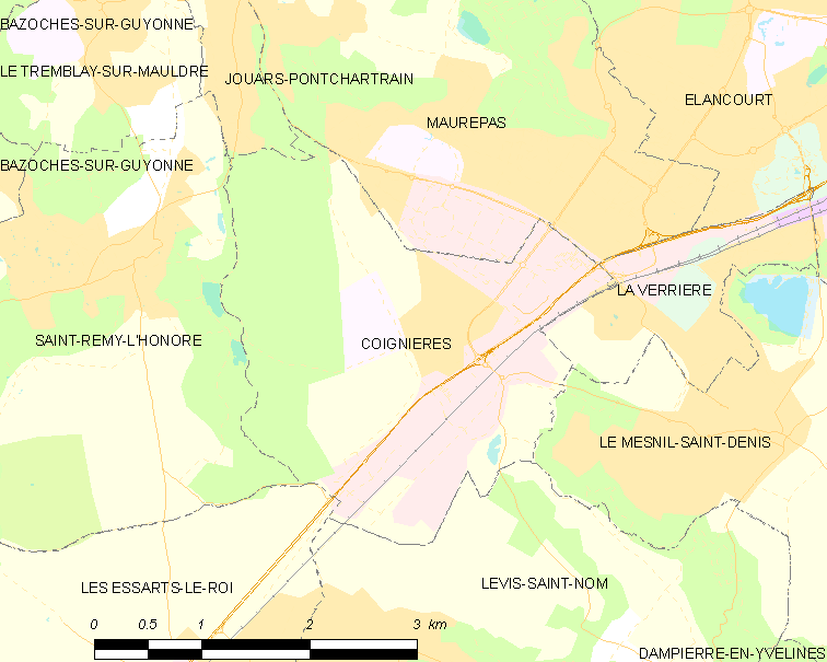 Map of French municipality Coignières